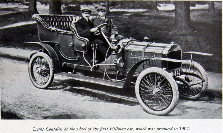 French-British automobile engineer Louis Coatalen (1879–1962) at the wheel of the first Hillman-Coatalen 40 hp built in 1907